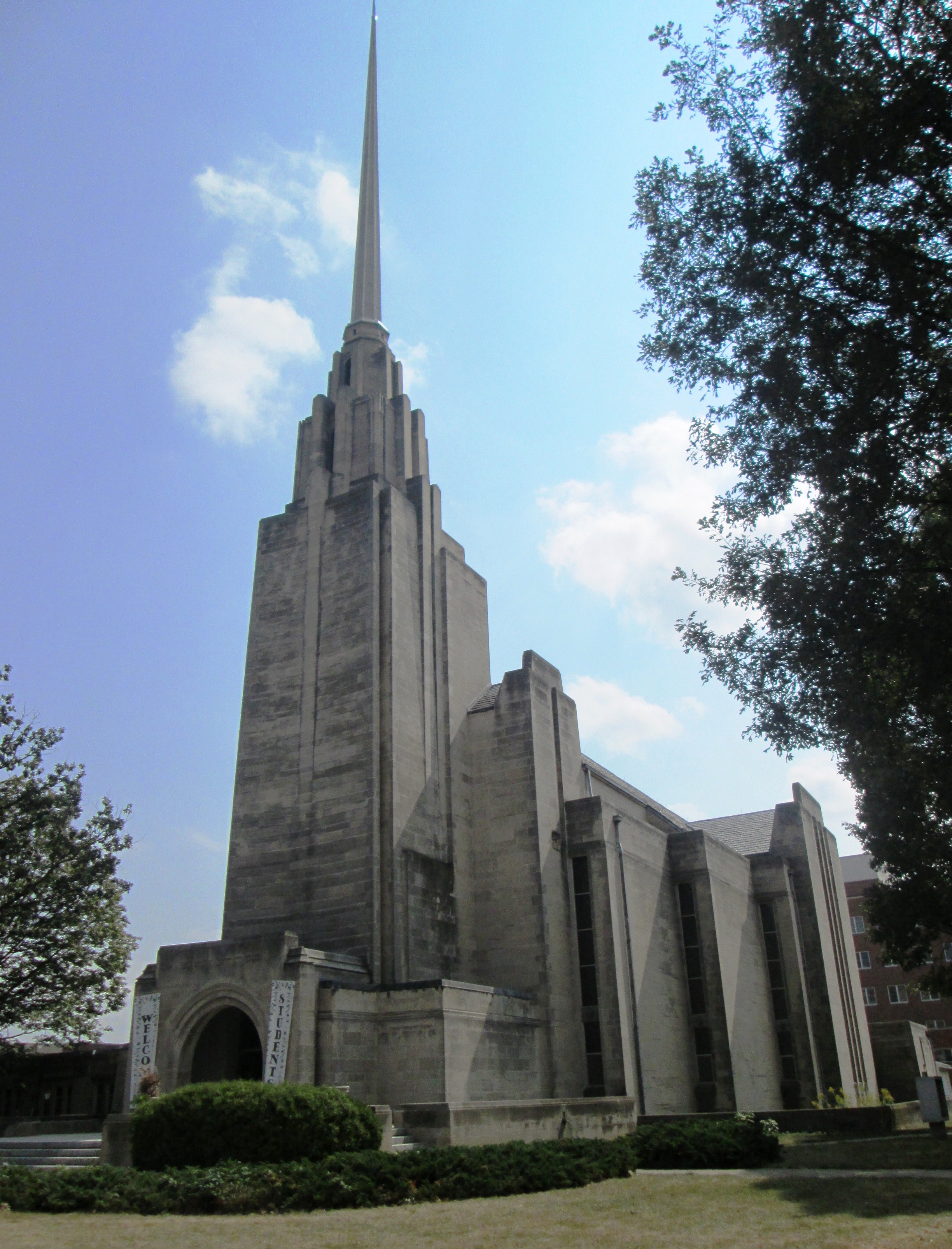 The Wesley United Methodist Church, located at 1207 West Green Street between S. Goodwin and S. Mathews Avenues in Urbana, Illinois, was built in 1959 and was designed by Harold Wagoner in an Expressionistic version of the Late Gothic Revival style. The church was founded in 1906 as Trinity Methodist Episcopal Church, formed out of Parks Chapel. In 1956, the church changed its name to "Wesley" to indicate that it was the church of the Wesley Foundation at the University of Illinois at Urbana-Champaign, the first such organization in the country. (Source: [1] and [2])